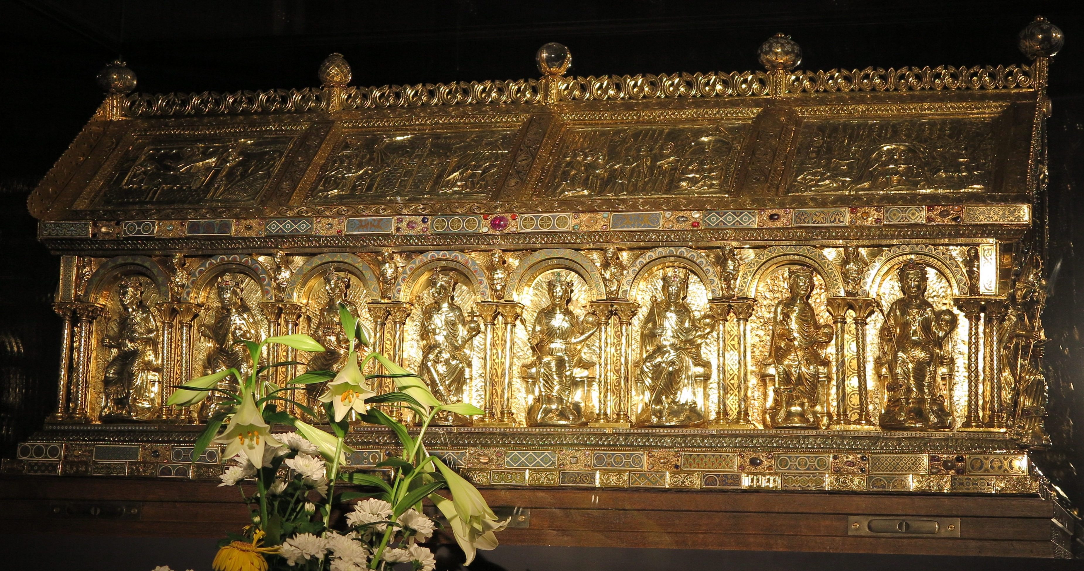 Left side of the Shrine of Charlemagne